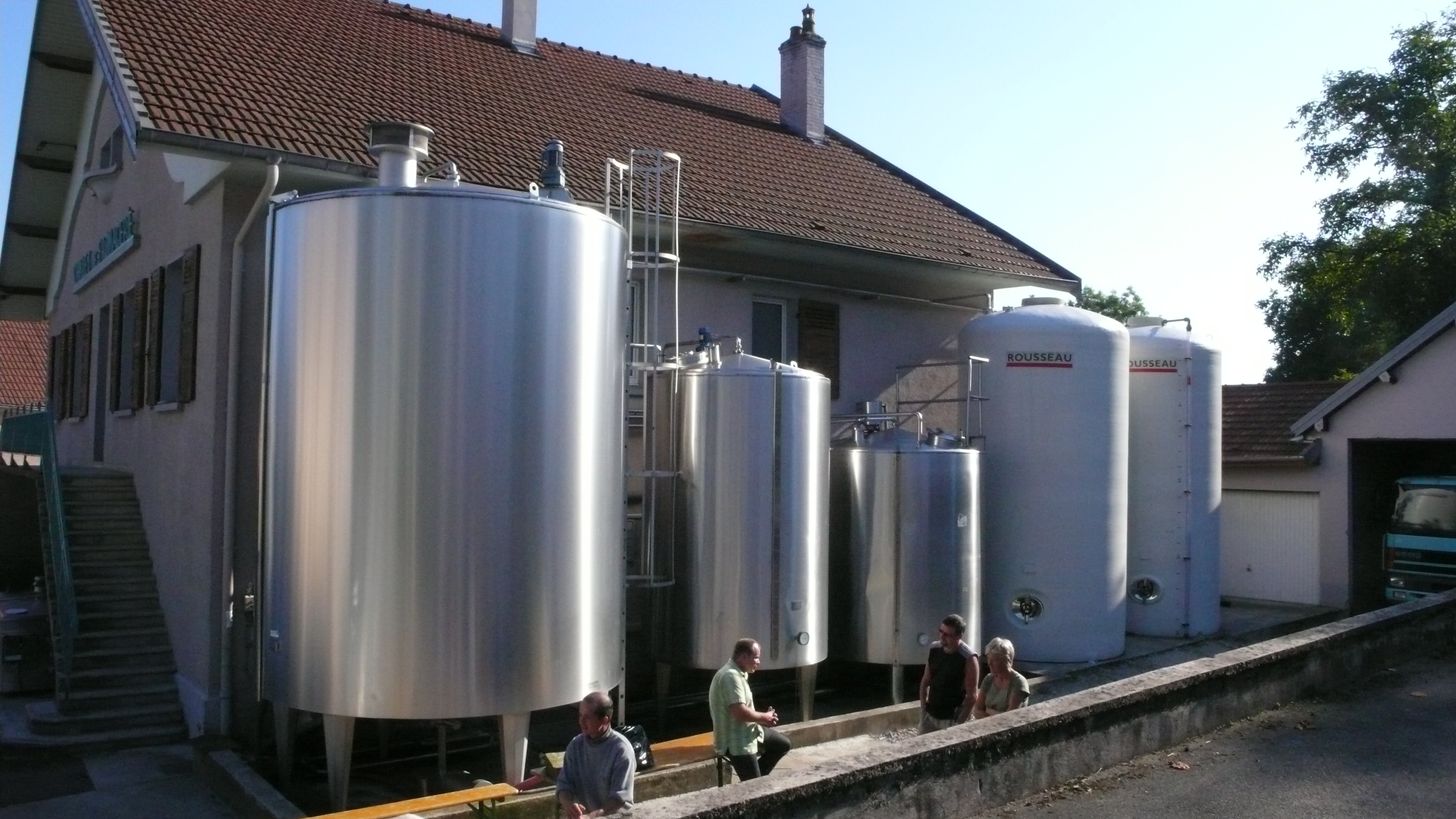 Bulk tanks at the dairy of Fontain